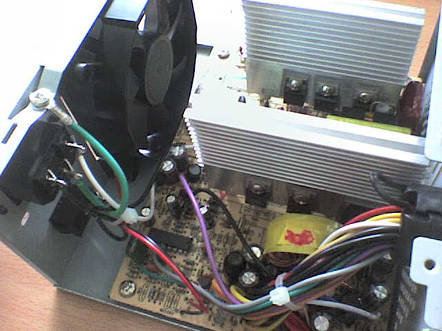 Aline PSU from inside.